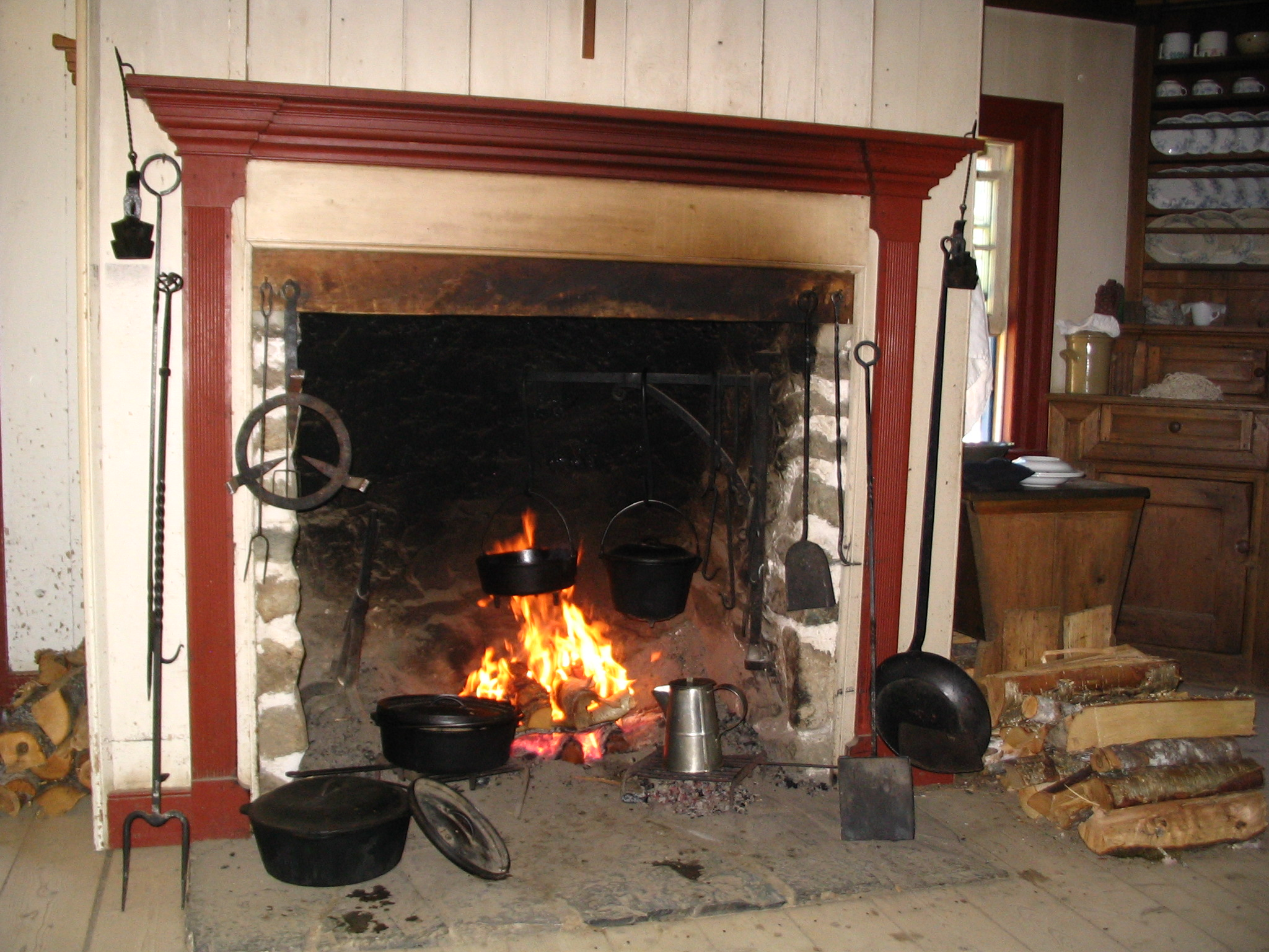 Inside the Cyr farm.